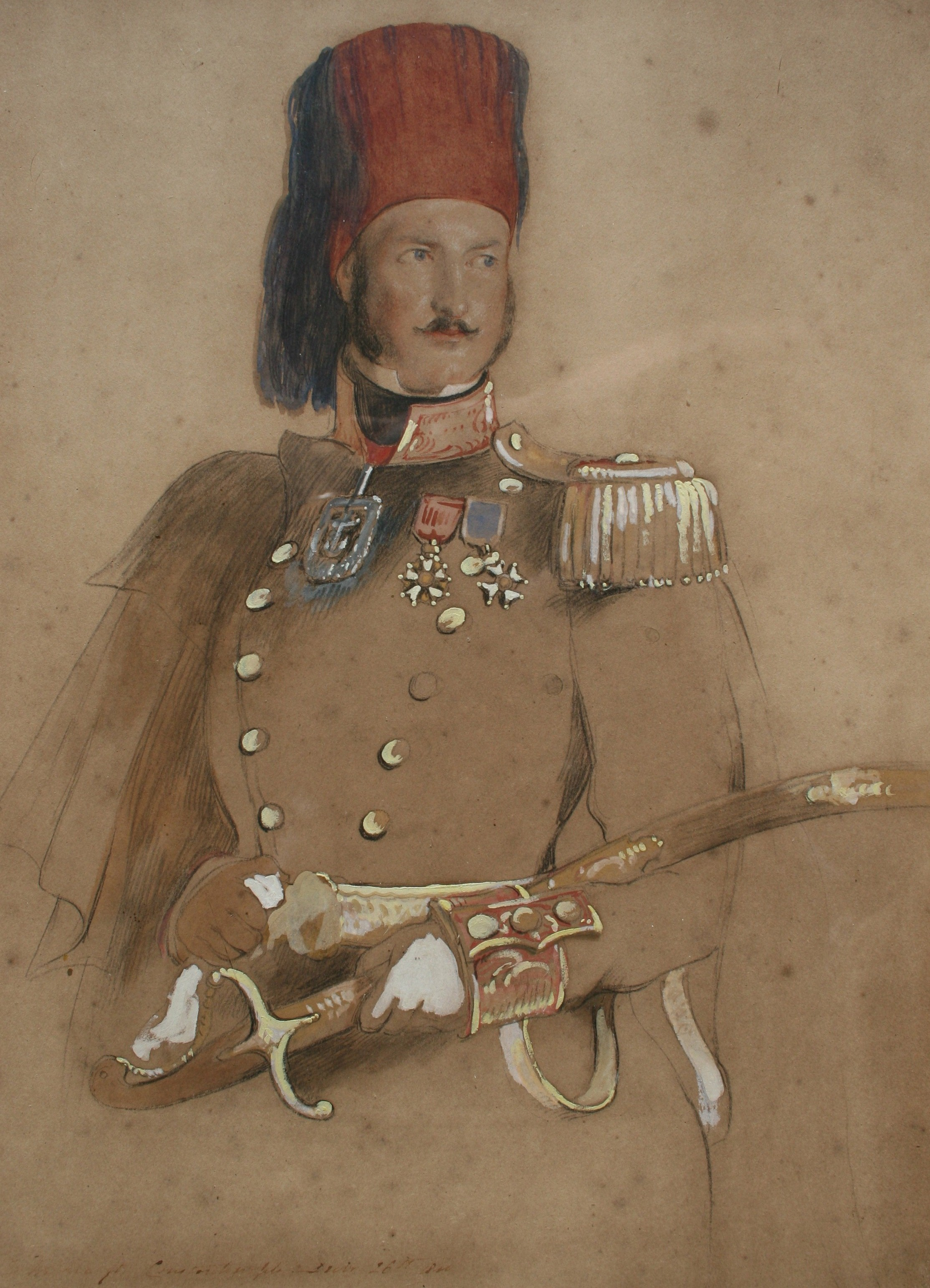 Admiral Sir Baldwin Wake Walker, 1st Baronet KCB (6 January 1802 – 12 February 1876), depicted while serving with the Ottoman Navy.